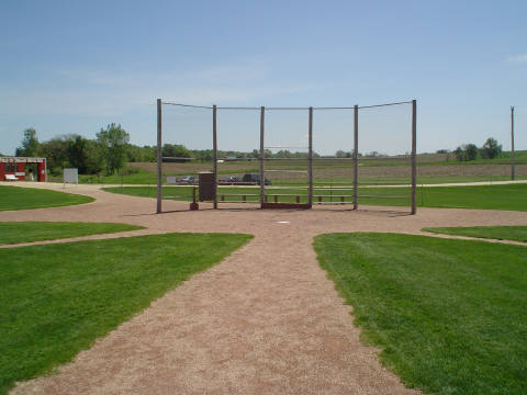 A view of home plate and the area beyond from the pitcher's mound. On the left, in the background, is the souvineer shop run by the Lansing Family (the owners of most of the field).